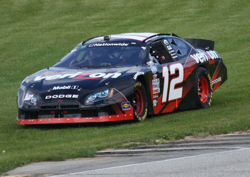 The NASCAR racecar for driver Justin Allgaier at the 2010 Bucyrus 200 at Road America.